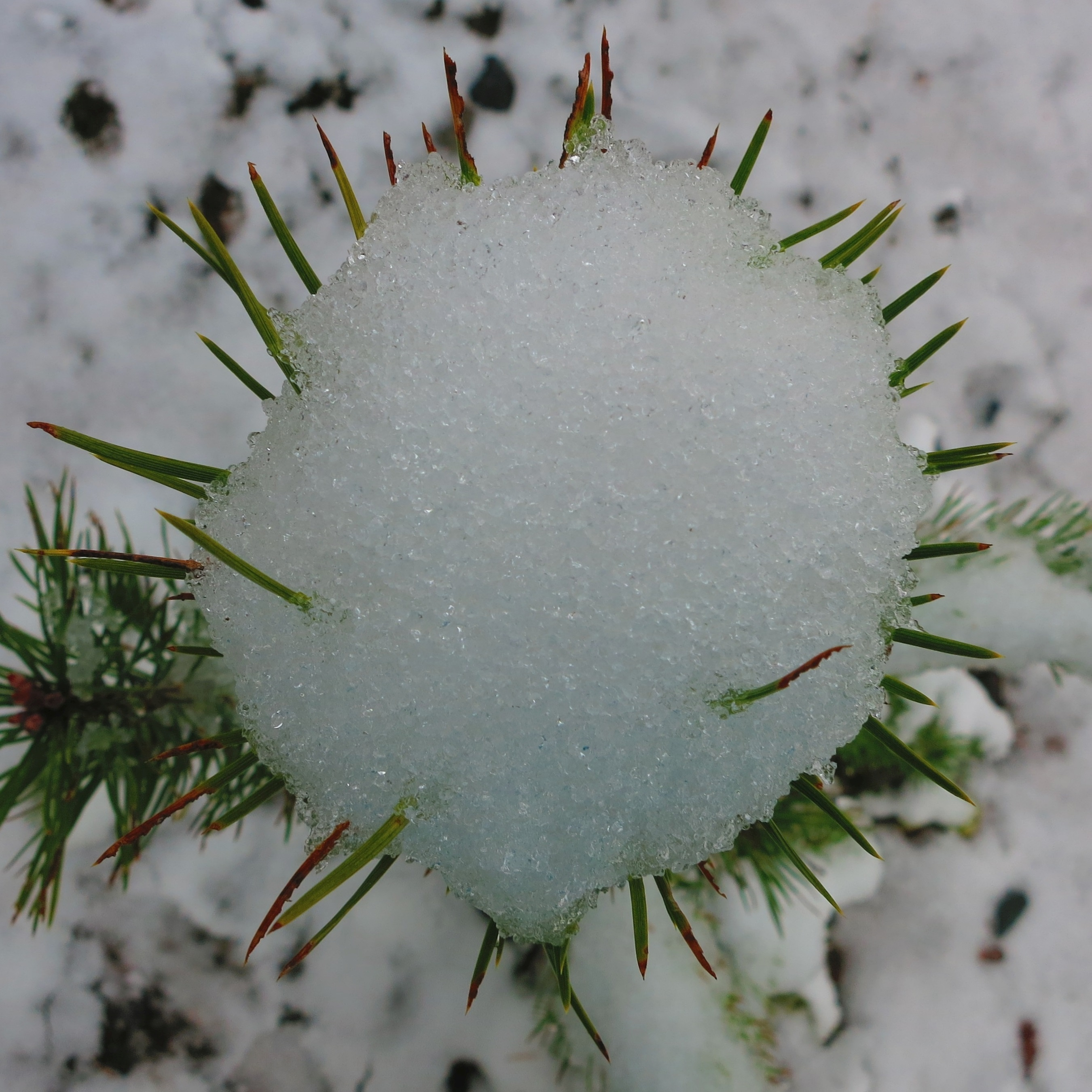 Top shoot of young Pinus sylvestris in November (Hyvinkää, Finland)